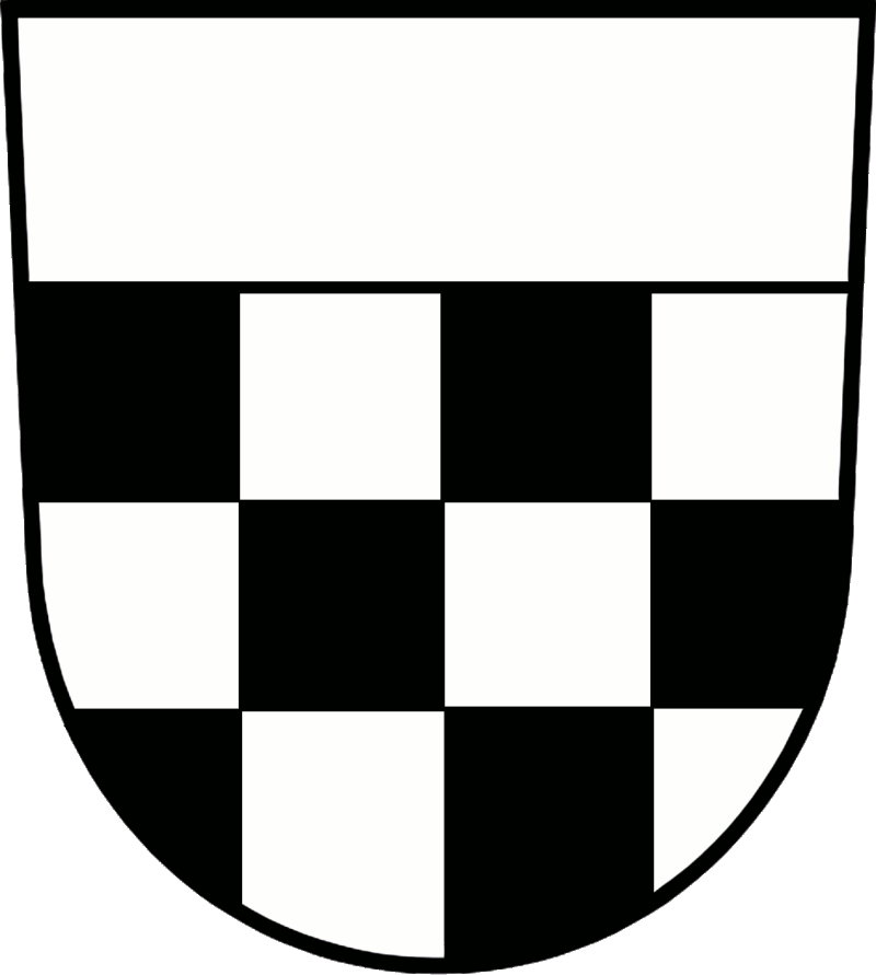 Coat of arms of Trebbin